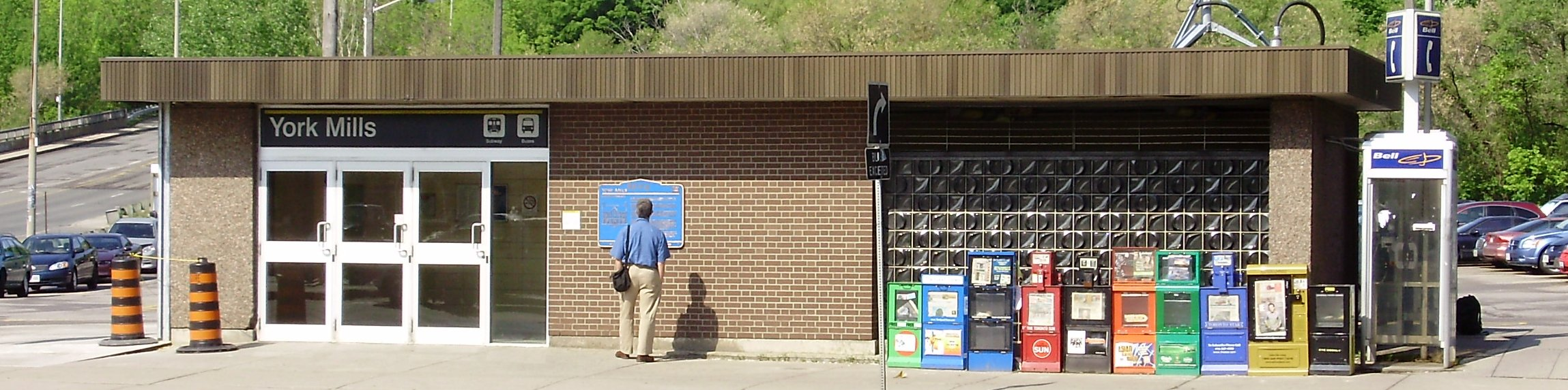 The Toronto Transit Commission's York Mills station in Toronto, Canada.